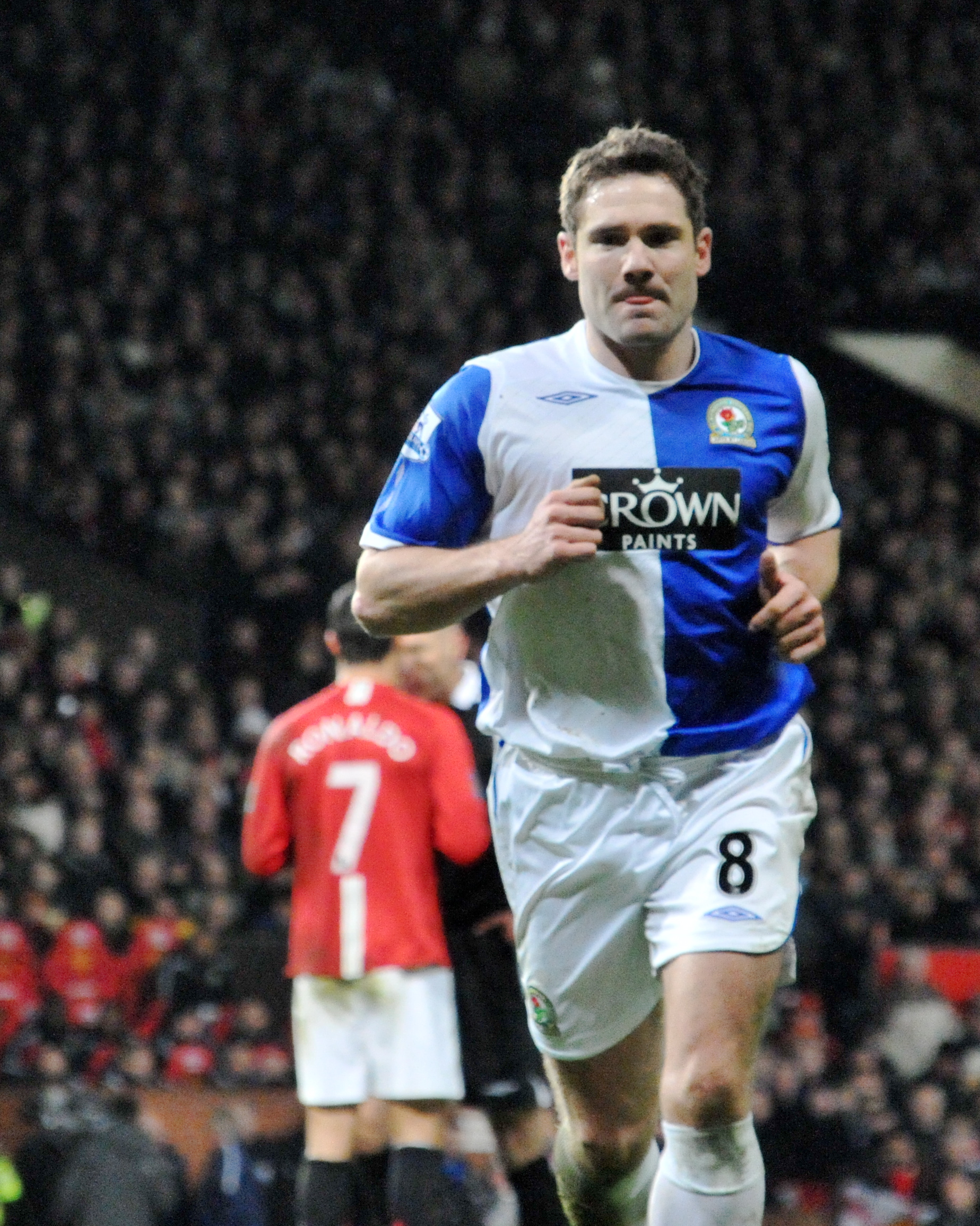 David Dunn of Blackburn Roverrs